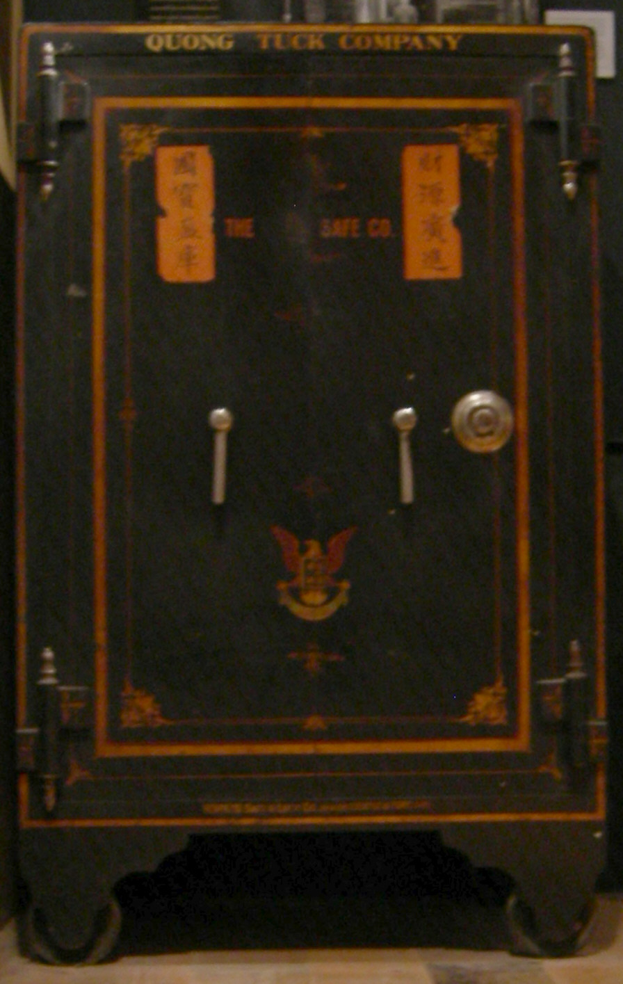 A safe that formerly belonged to the Quong Tuck Company (the Seattle company founded by Chin Gee Hee, now at Wing Luke Asian Museum, International District, Seattle, Washington. According to User:Nlu, the lefthand writing on the safe means "May national treasure fill the storage," (I'm guessing that "May national treasure fill the coffer" would be more colloquial) and the righthand writing means, "May wide sources of wealth come in."